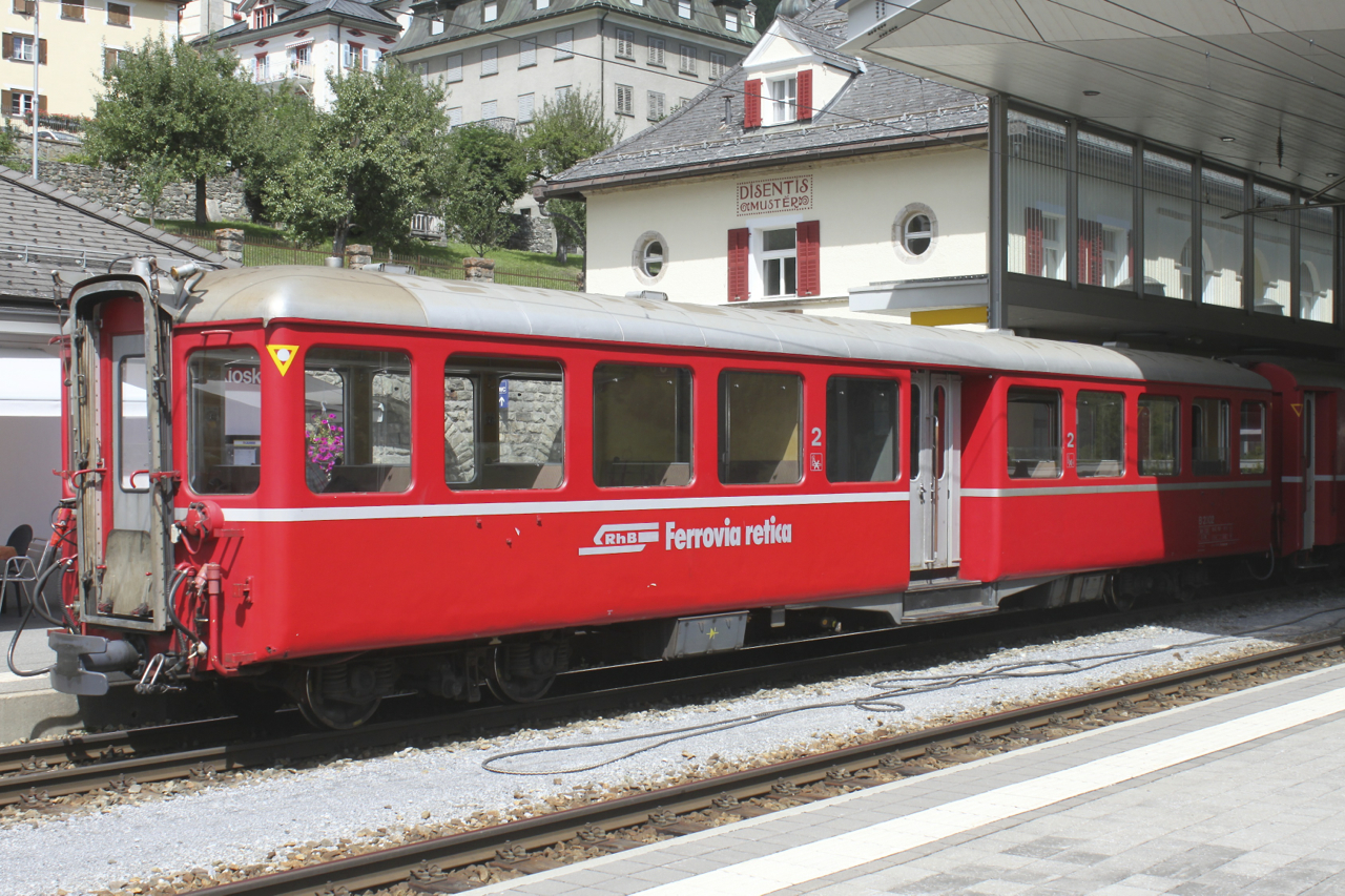 RhB B 2302 at Disentis/Mustér.